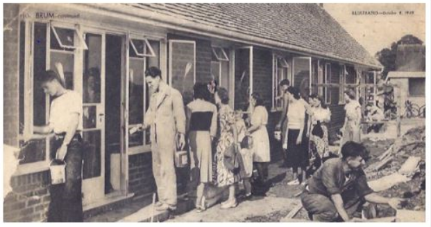 Self-Build’ group in Birmingham